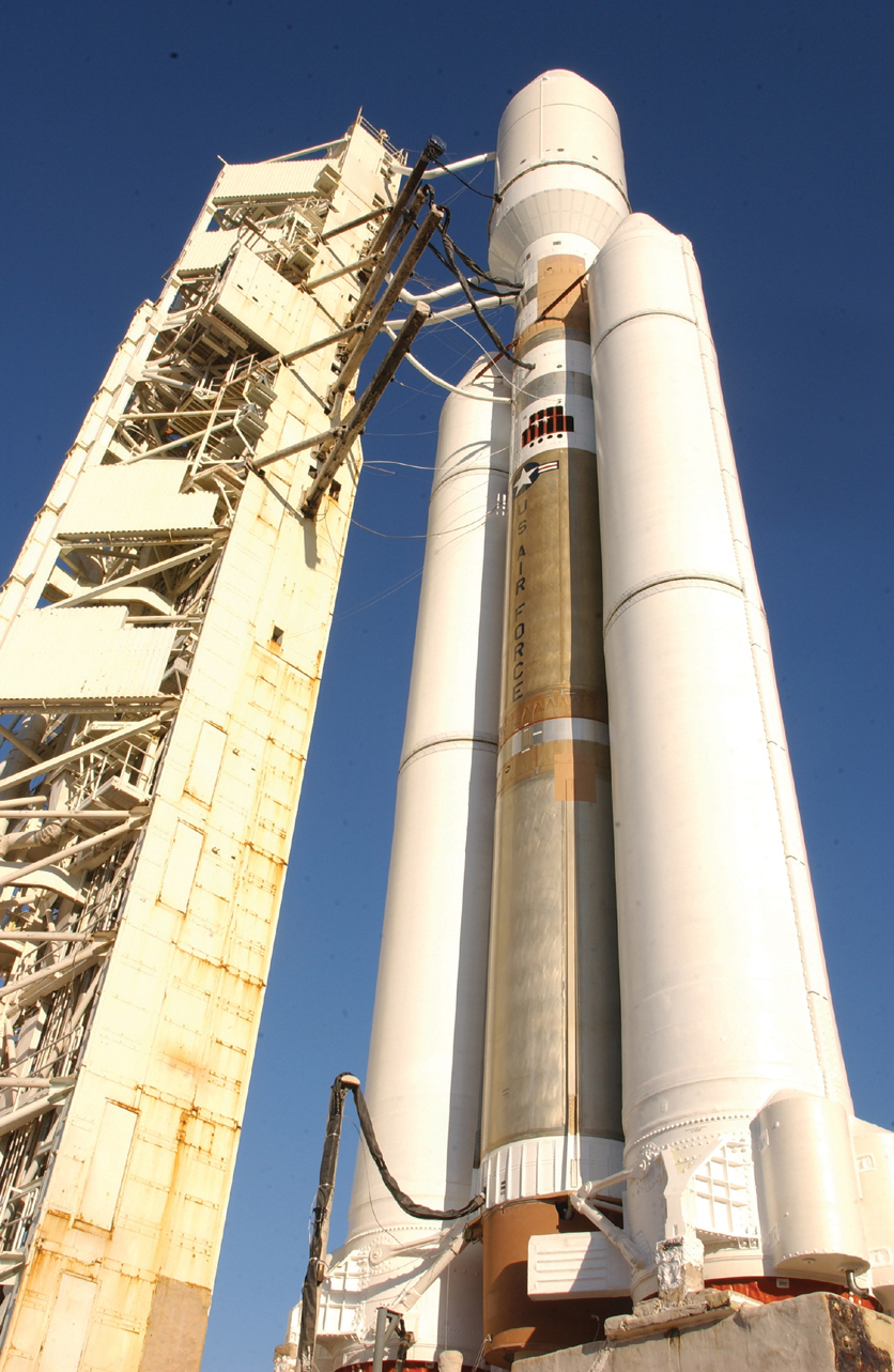 The last Titan IV spacecraft stands ready to lift off from Space Launch Complex-4 East Oct. 19, 2005. The last Titan launch made way for the Evolved Expendable Launch Vehicle program set to commence at Vandenberg this year with the launch of Boeing’s Delta IV and Lockheed Martin’s Atlas V vehicles.